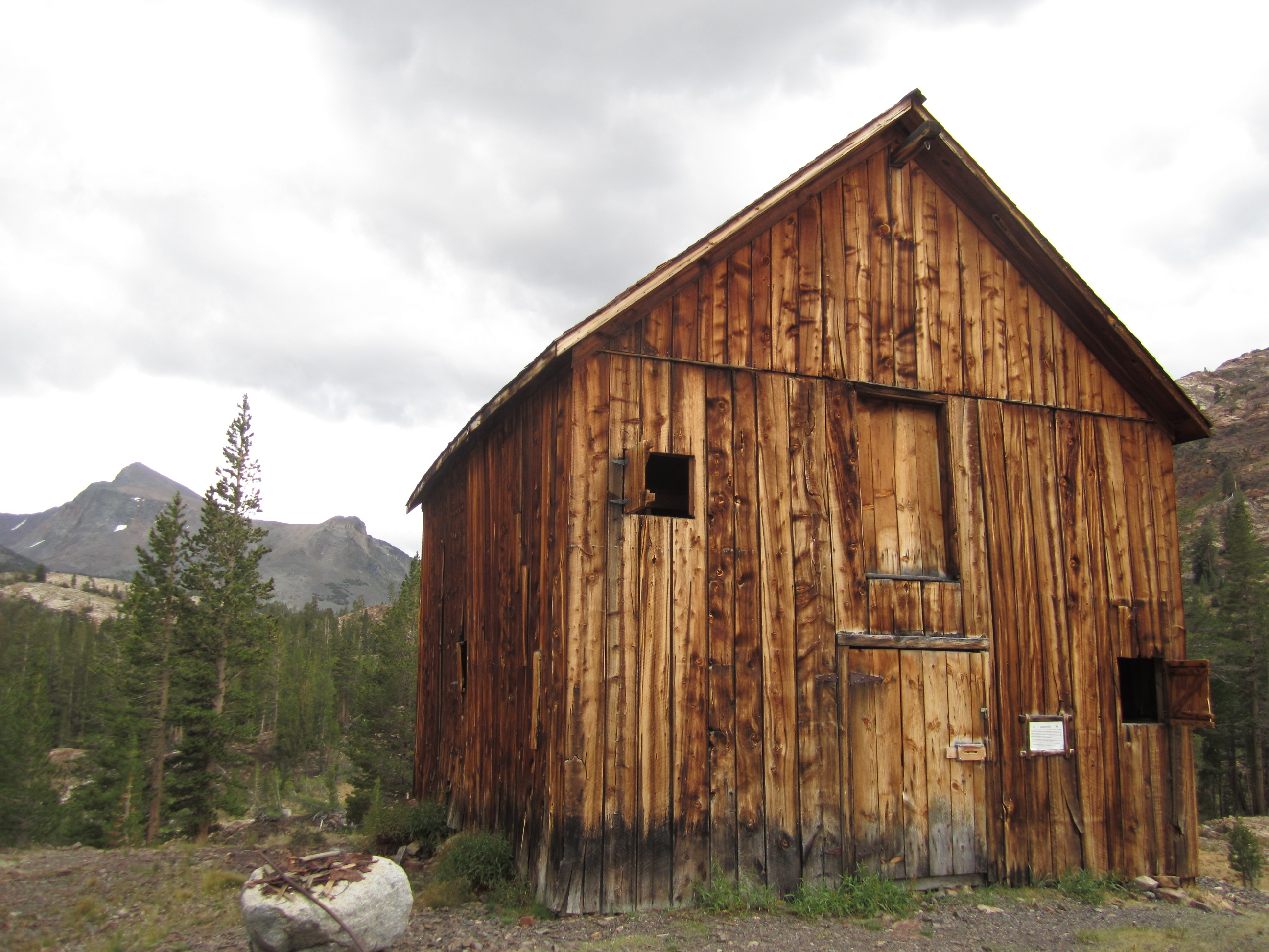 One of two restored buildings in the ghost town of Bennettville, California, near Yosemite National Park.